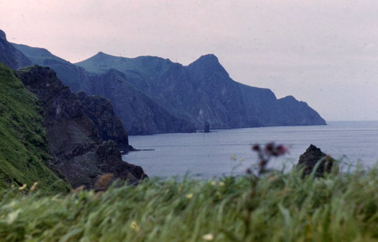 Shikotan